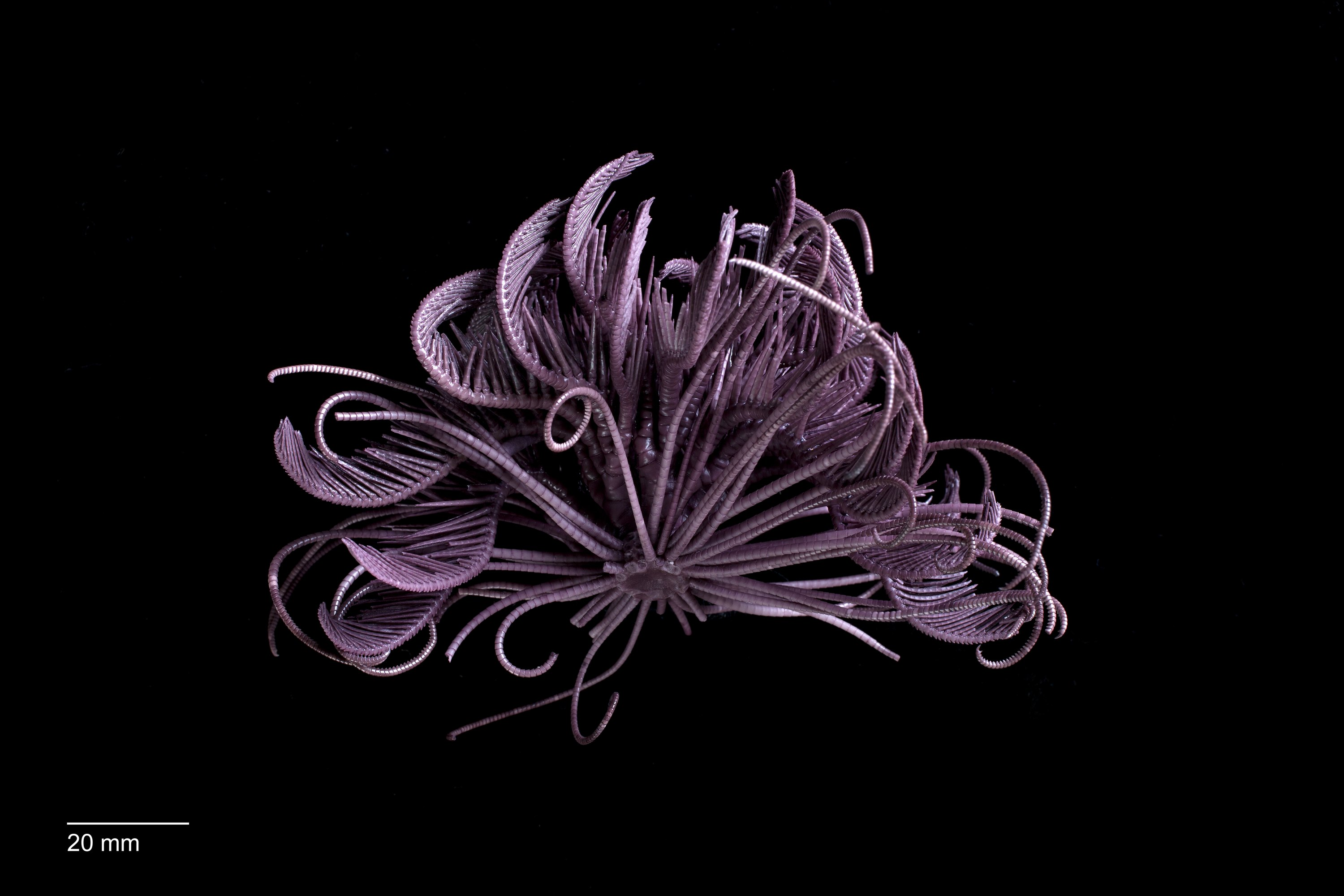 Ptilometra macronema, feather star, spirit specimen. Registration no. F 165909. Photographer: Blair Patullo Source: Museums Victoria